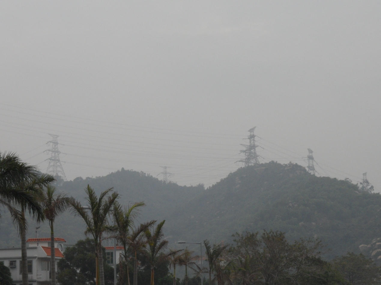 Transmission Line, New Territories, Hong Kong, China